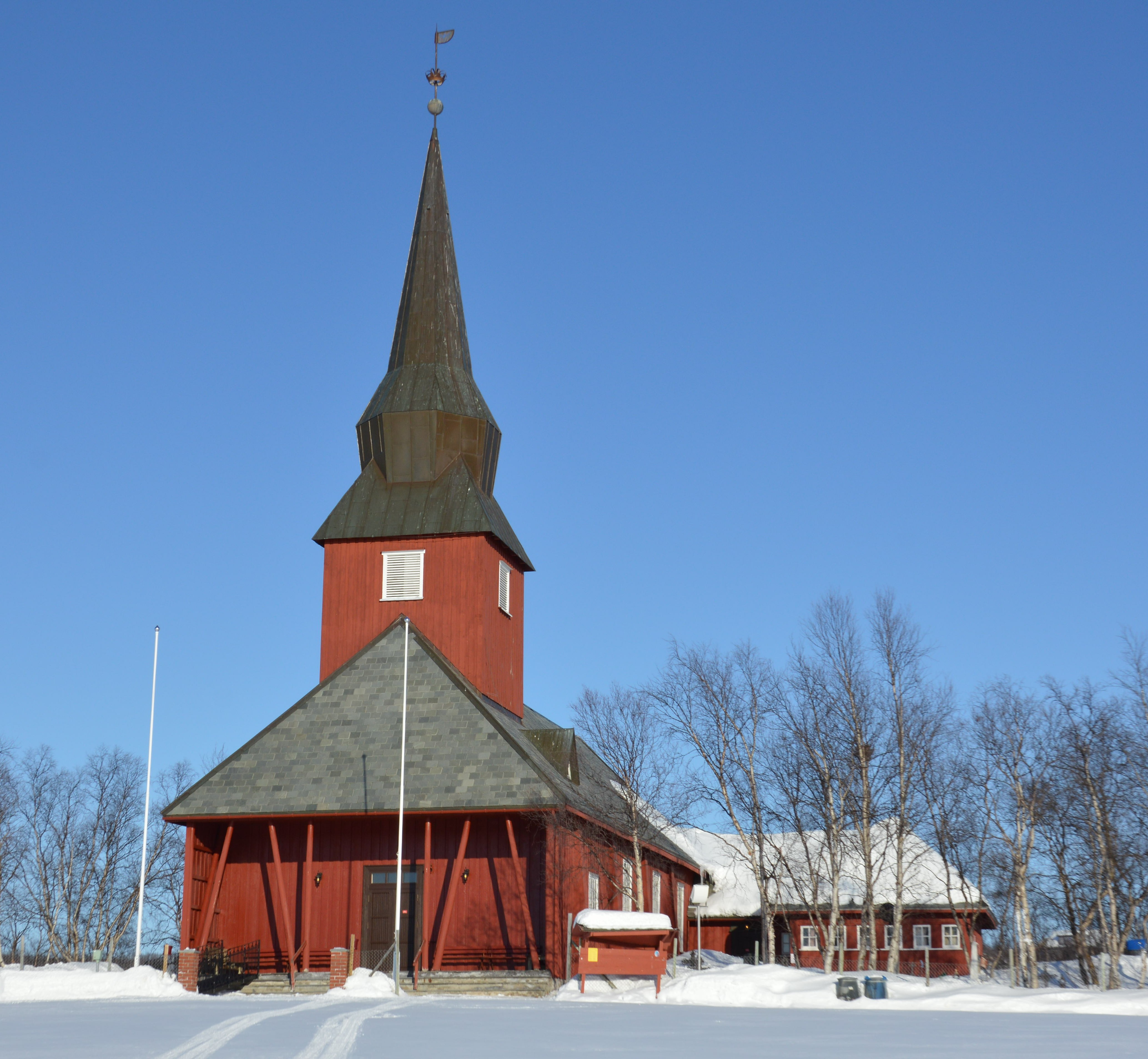 Kautokeino Church, Kautokeino/Guovdageaidnu, Finnmark, Norway/ Sápmi